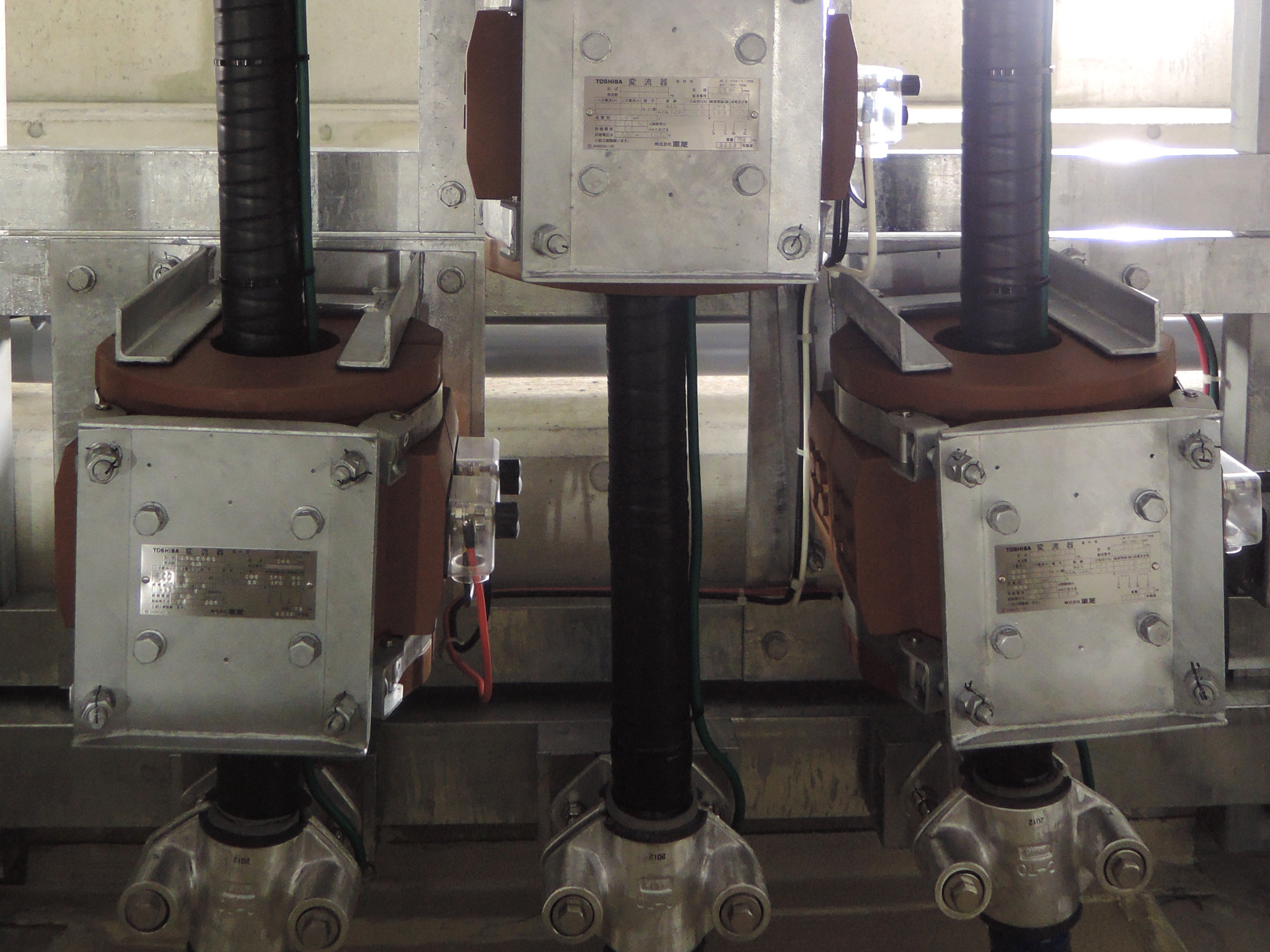 33kV Cable-through Current Transformer